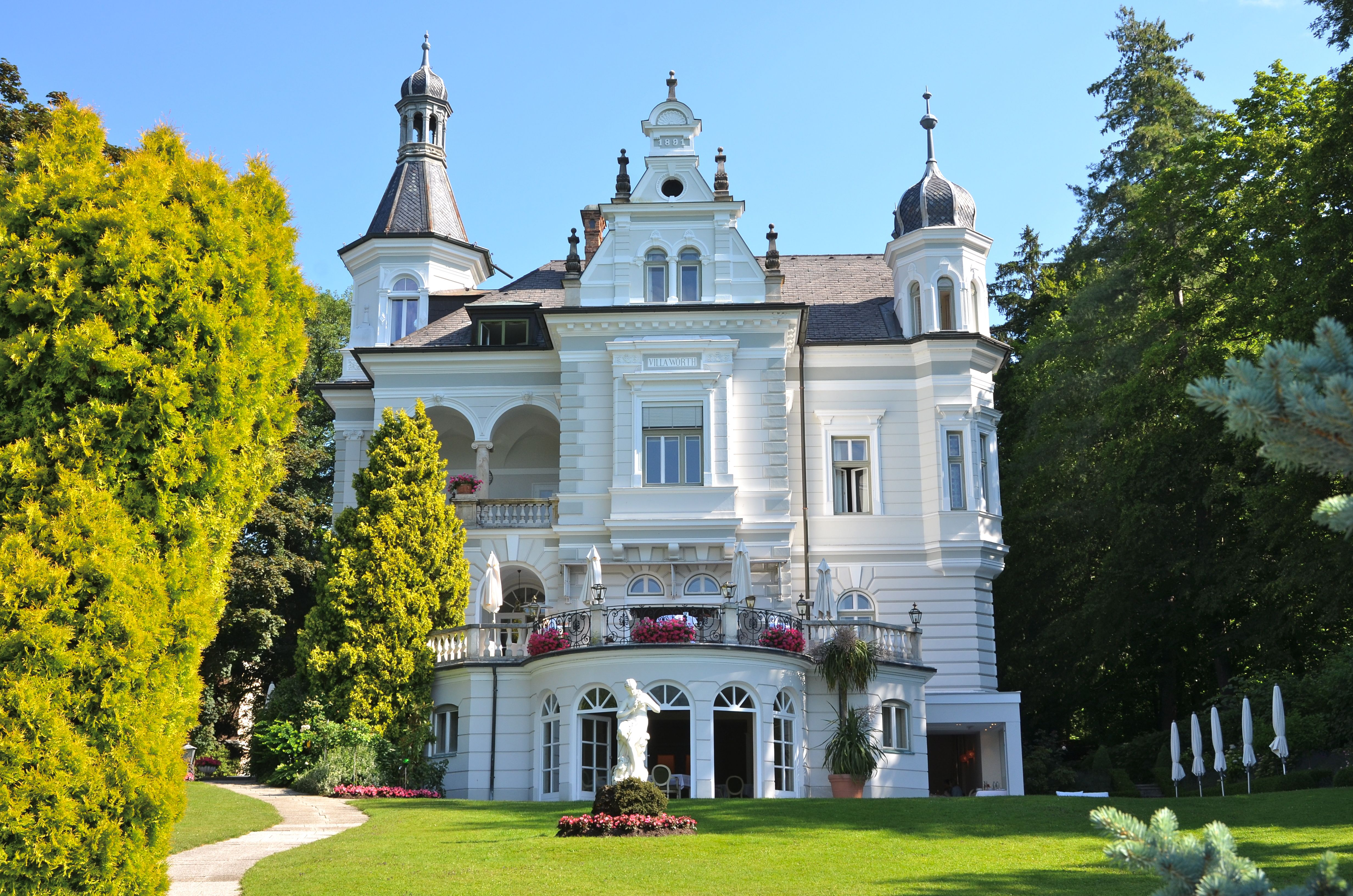 Villa Woerth (designed by Josef Viktor Fuchs and set up in the year 1891) on Johannaweg #5, municipality Poertschach on Lake Woerth, district Klagenfurt Land, Carinthia, Austria, EU